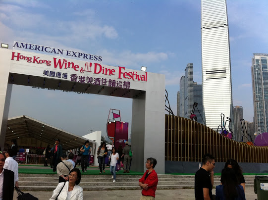 香港美酒佳餚巡禮, Hong Kong Wine and Dine Festival 2012, West Kowloon, Hong Kong